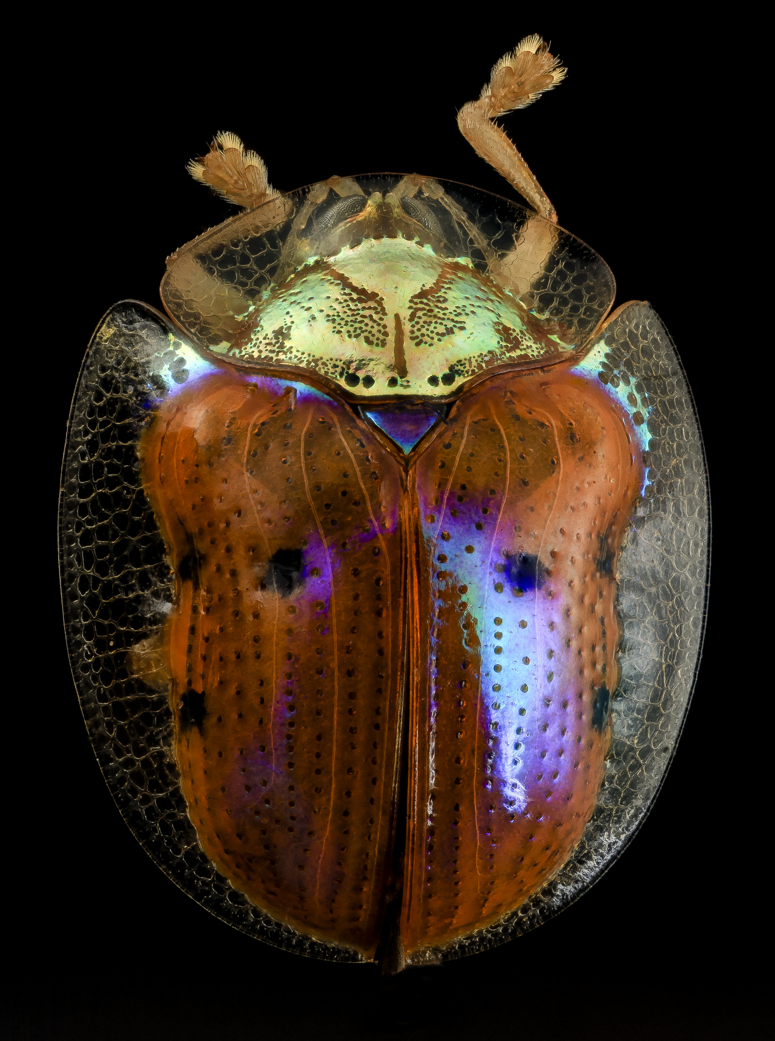 Charidotella sexpunctata - One of the many variations of this electric beetle, exquisite in its color, form, and blends of neon all free of charge from your friend: Nature. Upper Marlboro, Maryland Canon Mark II 5D, Zerene Stacker, Stackshot Sled, 65mm Canon MP-E 1-5X macro lens, Twin Macro Flash in Styrofoam Cooler, F5.0, ISO 100, Shutter Speed 200, link to a .pdf of our set up is located in our profile